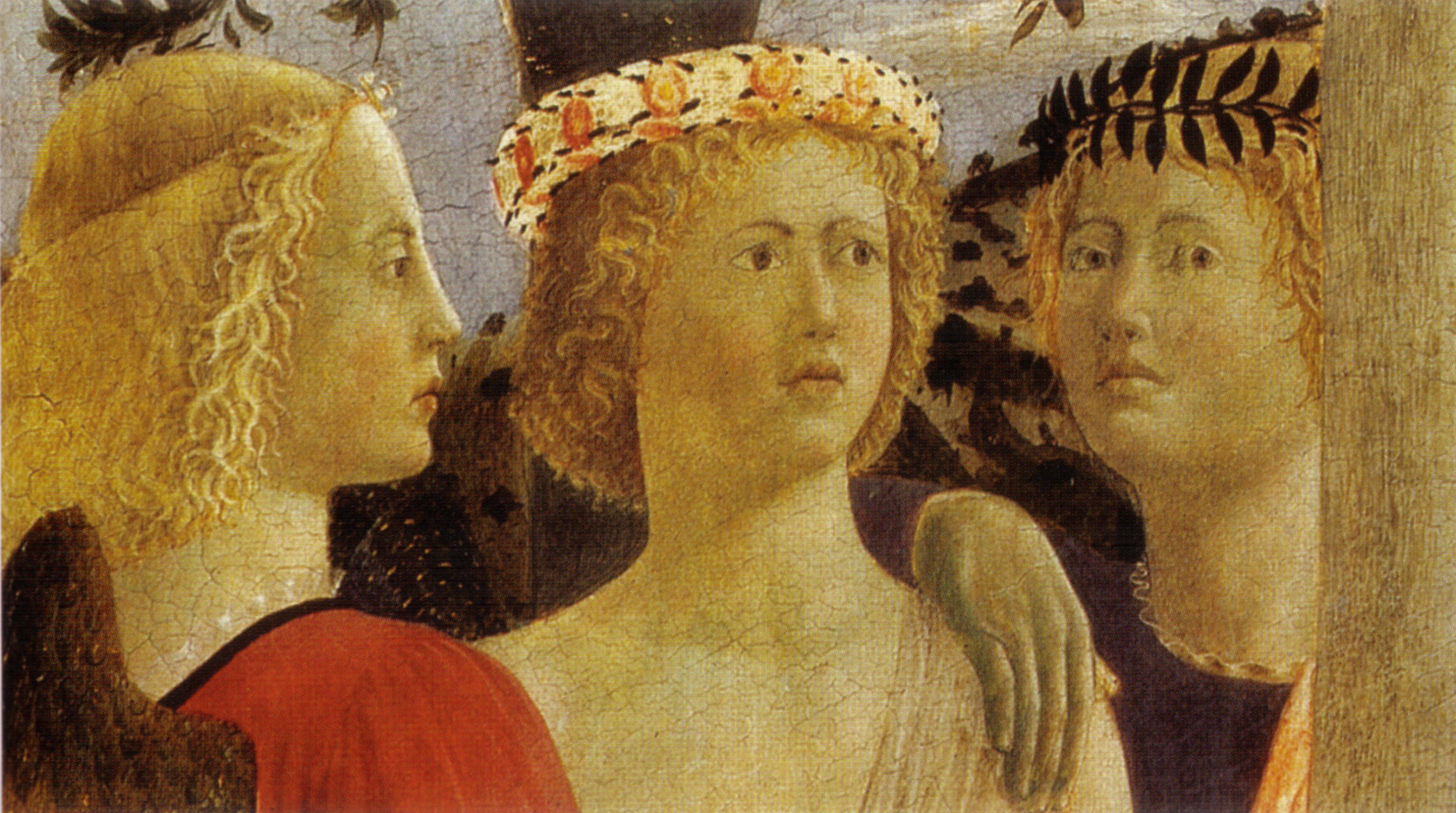 PIERO della FRANCESCA Detail from the Baptism of Christ